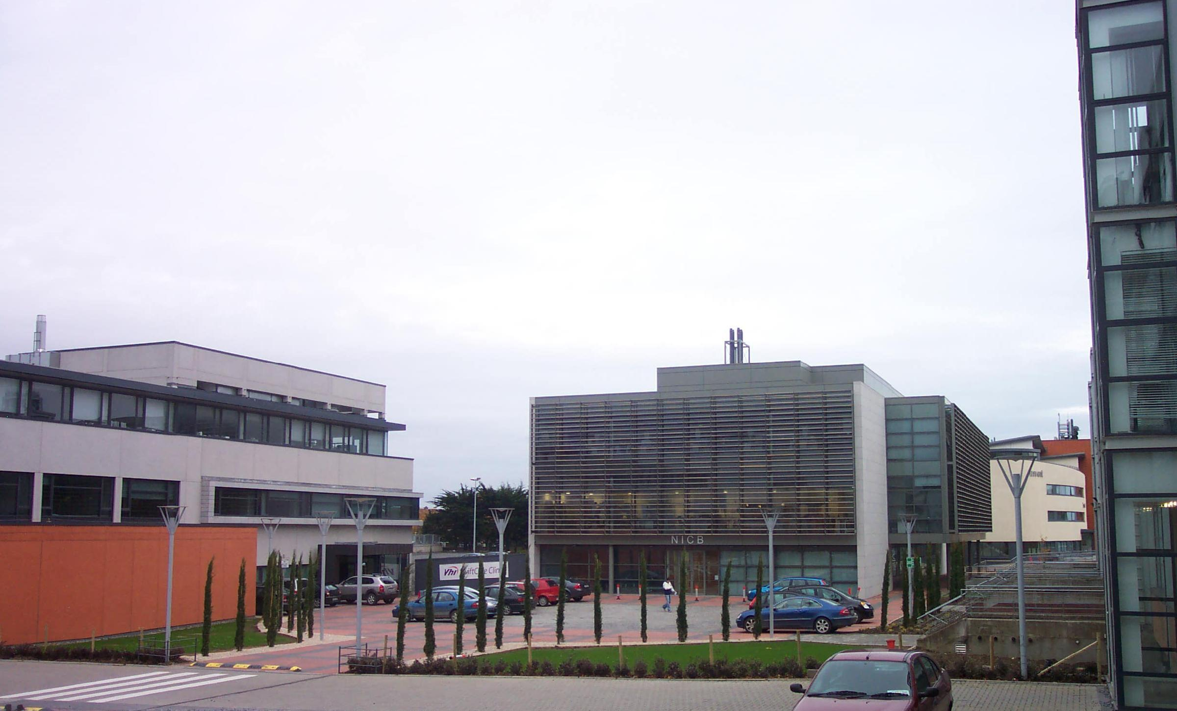 The National Institute for Cellular Biotechnology (Ireland) at Dublin City University.